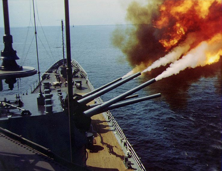 The U.S. Navy heavy cruiser USS Saint Paul (CA-73) fires her forward 8"/55 guns in support of ground troops in South Vietnam.